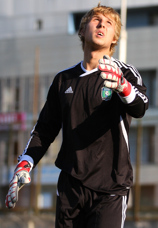 Daniil Gavilovskiy with FC Tom Tomsk.